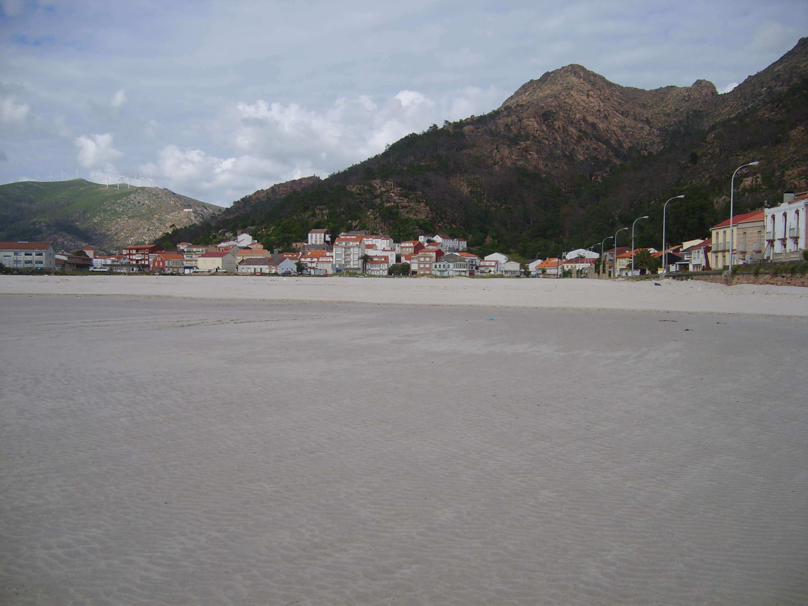 View of the beach, with the Mount Pindo in the background. Carnota